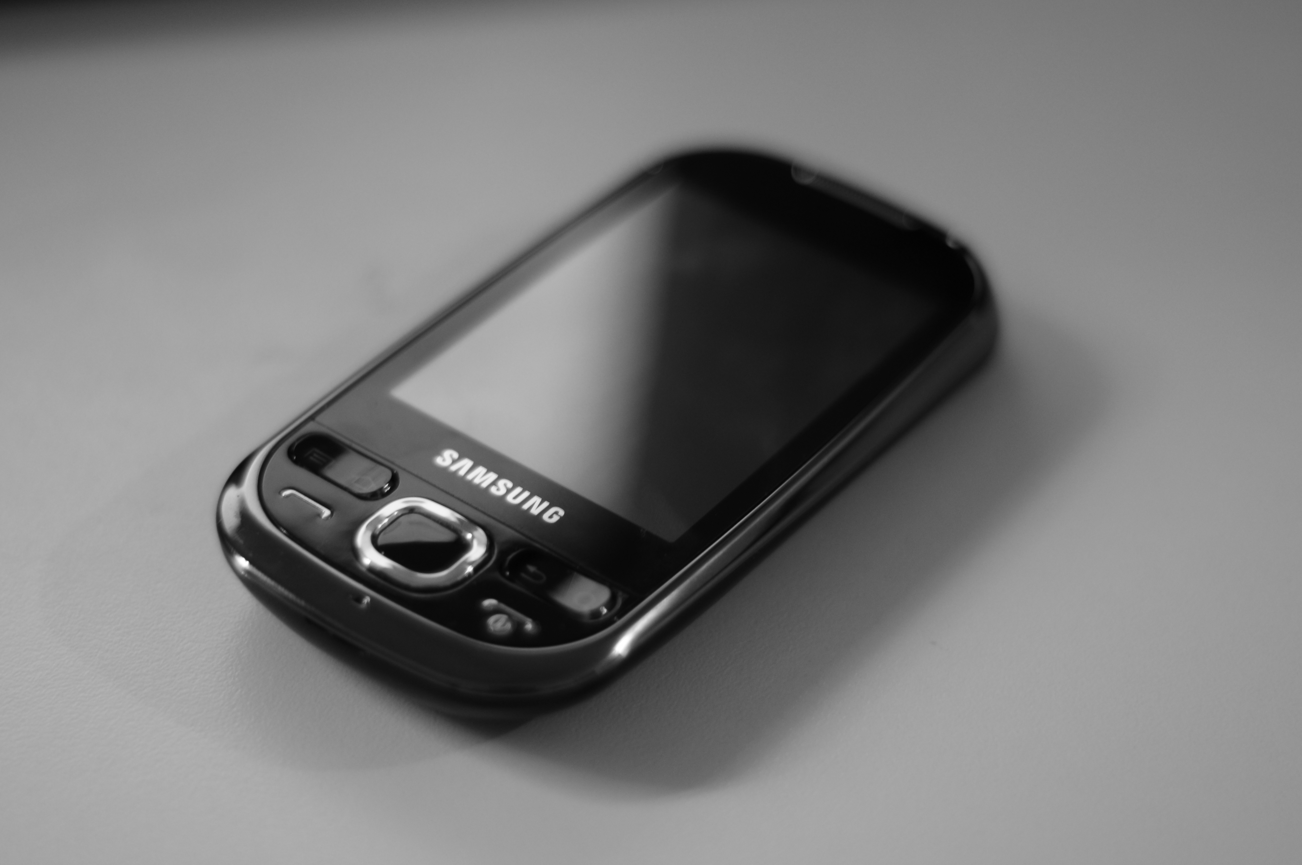 Samsung Galaxy 5 (aka i5500) cellphone.